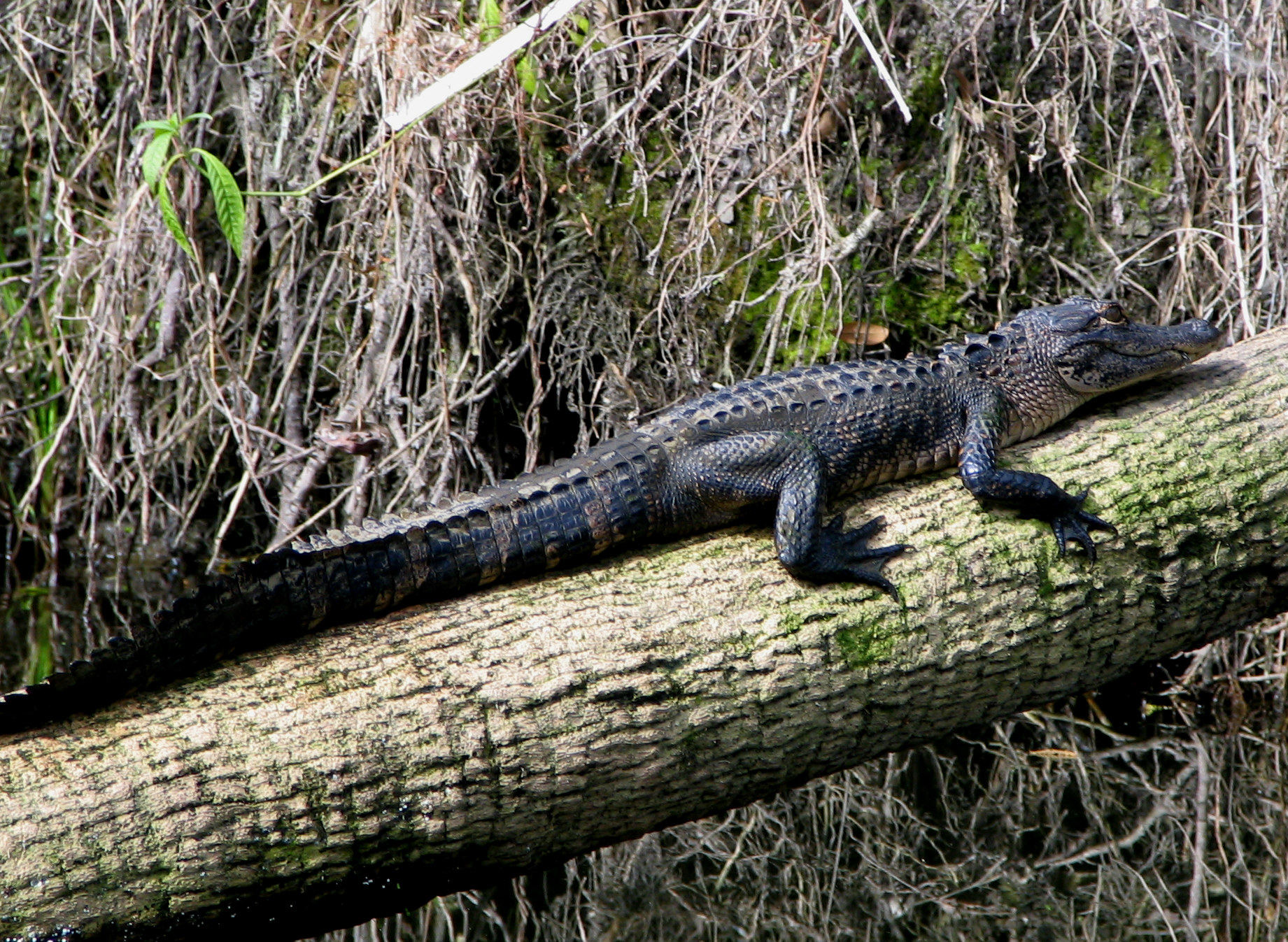 Hillsborough River Alligator Florida, USA